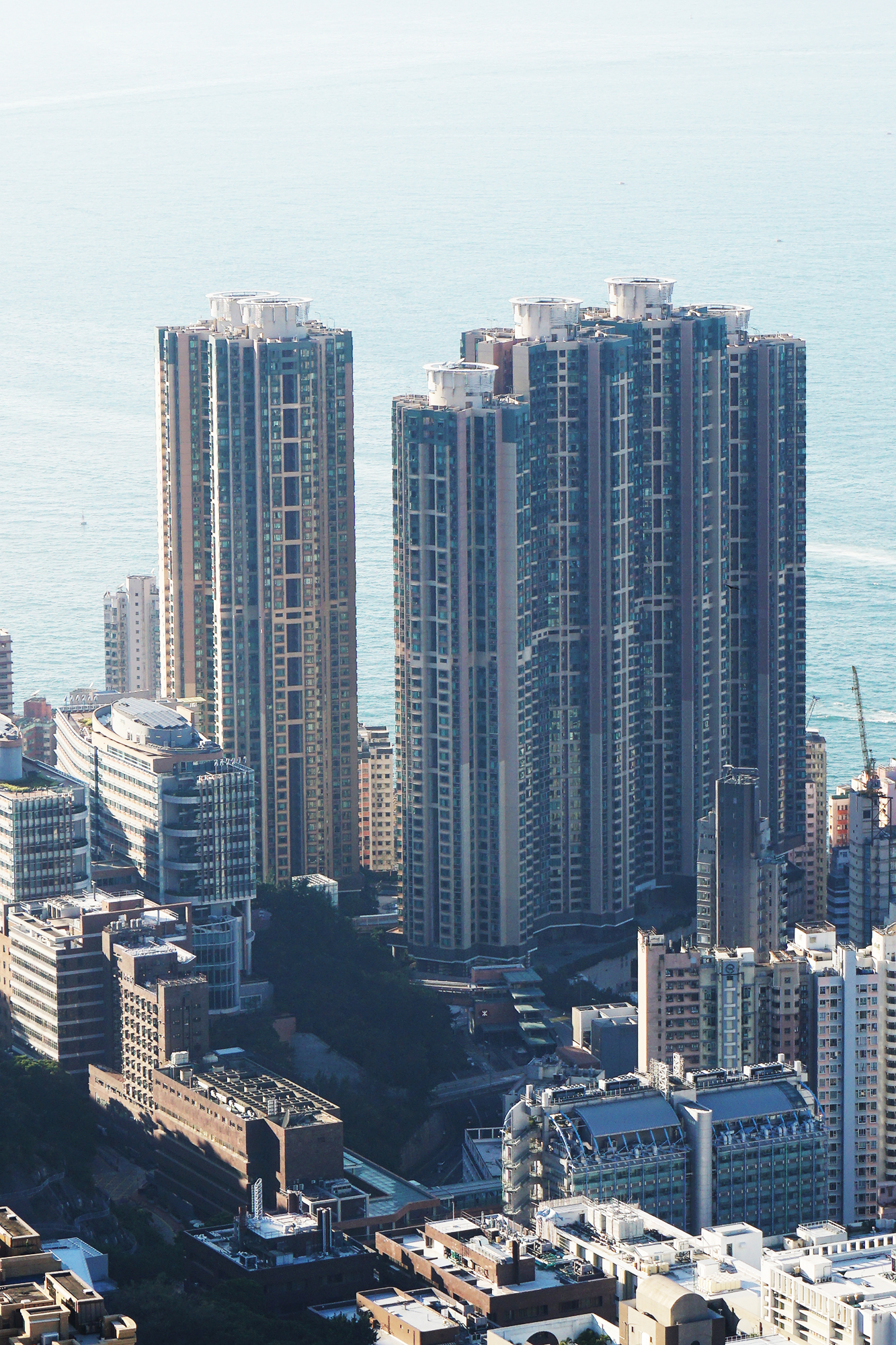 The Belcher's in Shek Tong Tsui, Hong Kong.